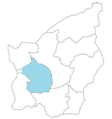 San Marino in 1000